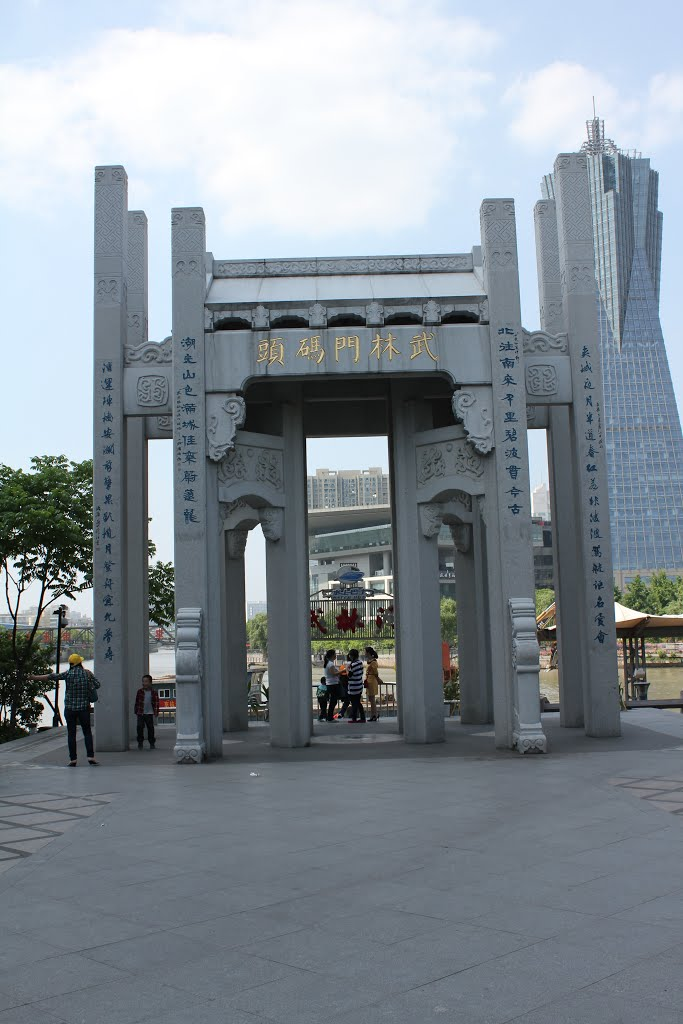 Port_of_Wulinmen, Hangzhou, China